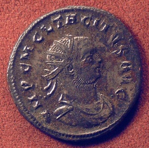 Antoninian of Marcus Claudius Tacitus Tacitus